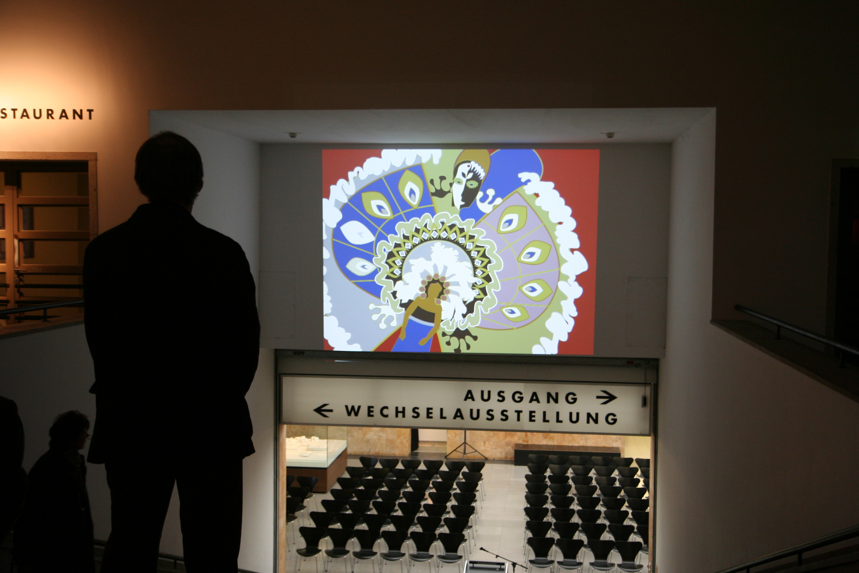 Still from the animation 'Armament at Lake Constance' by Myriam Thyes, 2008. Shown as part of the installation 'Flag Metamorphoses' at: 'Nothing to declare. 4th Triennale of Contemporary Art Oberschwaben'. Zeppelin Museum, Friedrichshafen, Germany, April - June 2008. 'Flag Metamorphoses' is a participatory art project by Myriam Thyes.